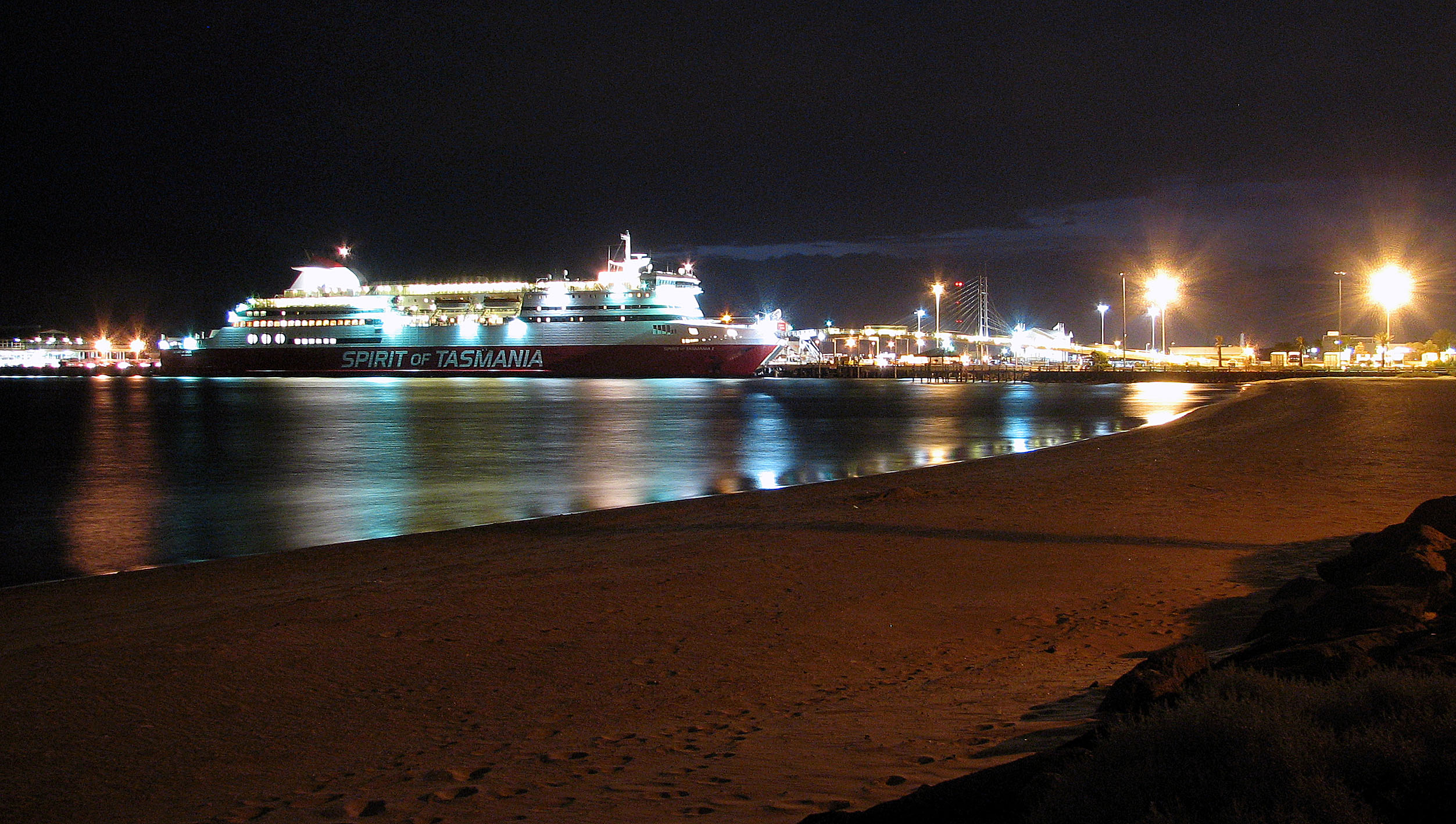 Spirit of Tasmania at Port Melbourne.